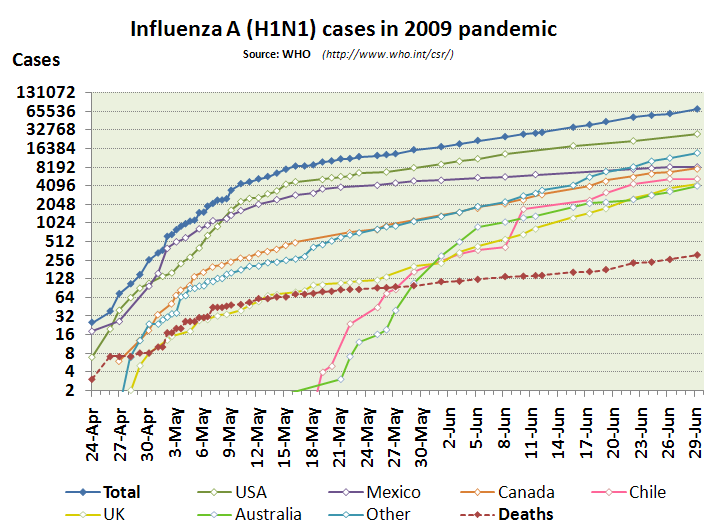 Development of H1N1 influenza cases in 2009. Semi-logarithmic version. Source: WHO figures.